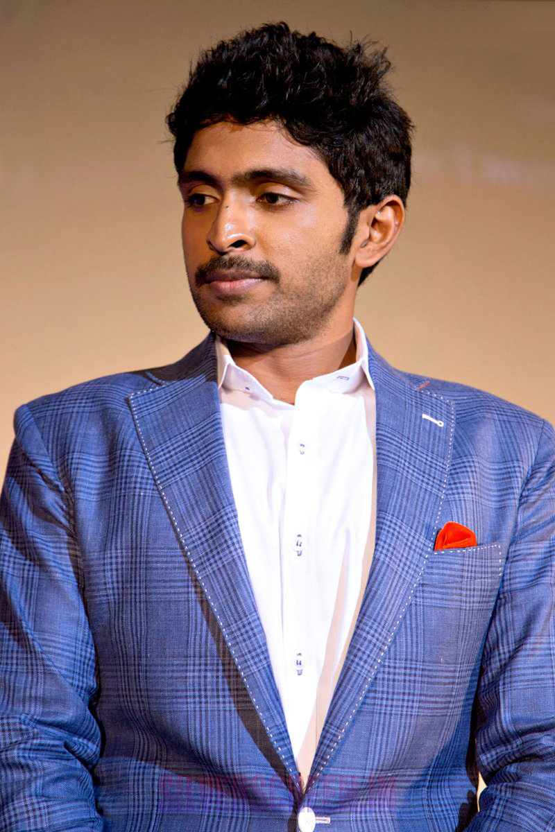 Vikram Prabhu at Arima Nambi Audio Launch